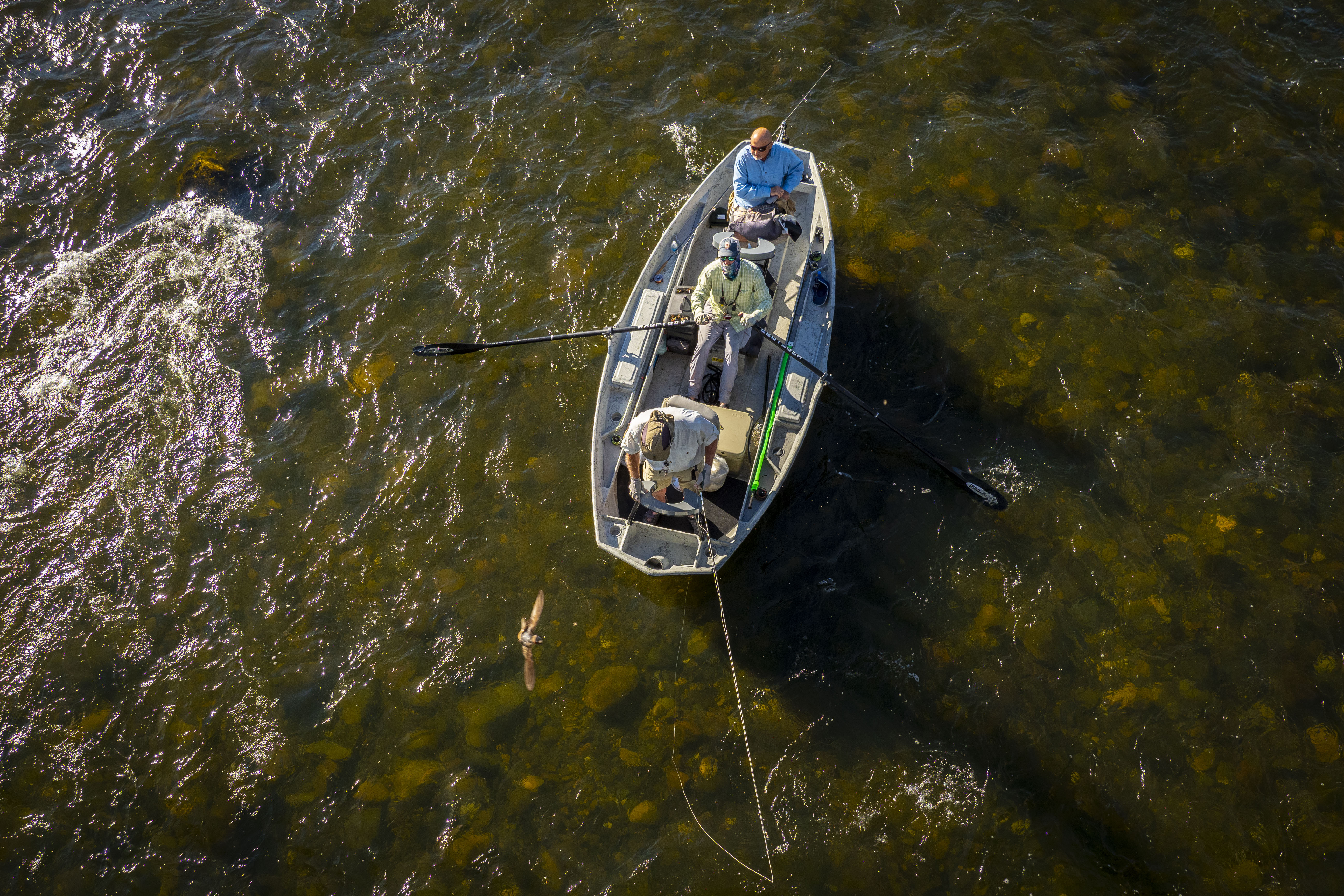 Men fish the Madison River in the Beaverhead-Deerlodge National Forest south of Ennis, Montana. Beaverhead-Deerlodge National Forest is the largest of the national forests in Montana, covering 3.35 million acres and throughout eight Southwest Montana counties. USDA Photo by Preston Keres